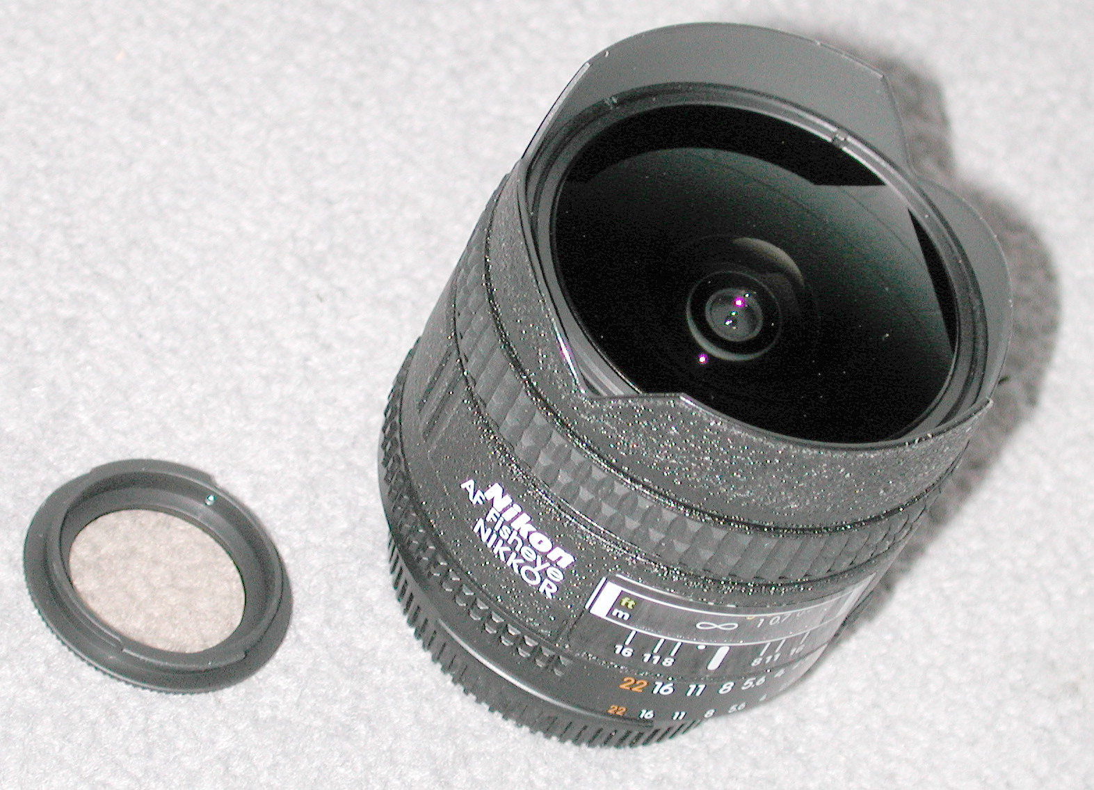 A 16mm ful frame fisheye lens for a 35mm camera manufactured by nikon